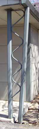 Detail of Lustron home downspout accent. Photo taken in Columbus, Ohio, April 2009.